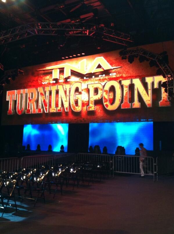 new set used in Impact zone November 21 2013